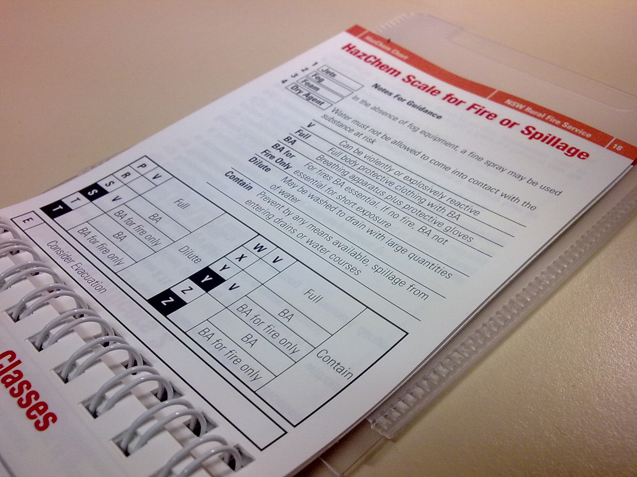 Photograph of page 18 of the New South Wales Rural Fire Service Firefighters' Pocket Book, circa 2005.